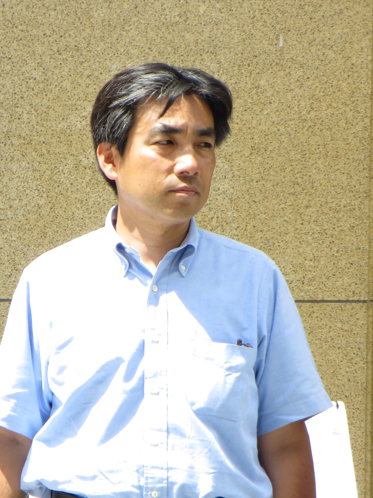 Toshirō Ishii (Member of the House of Representatives in Japan (2009 - 2012)).